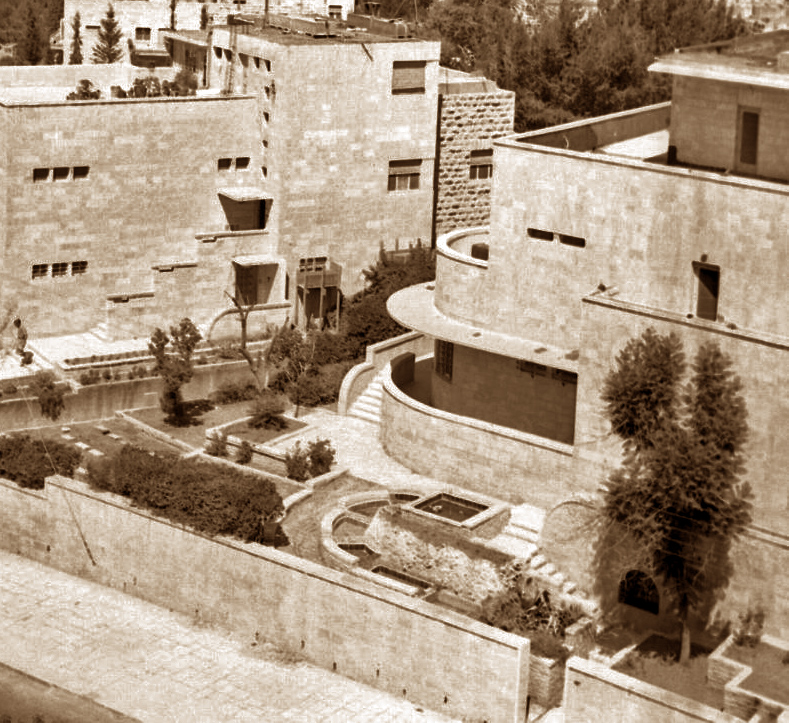 Villa Leah in Rehavia, Jerusalem